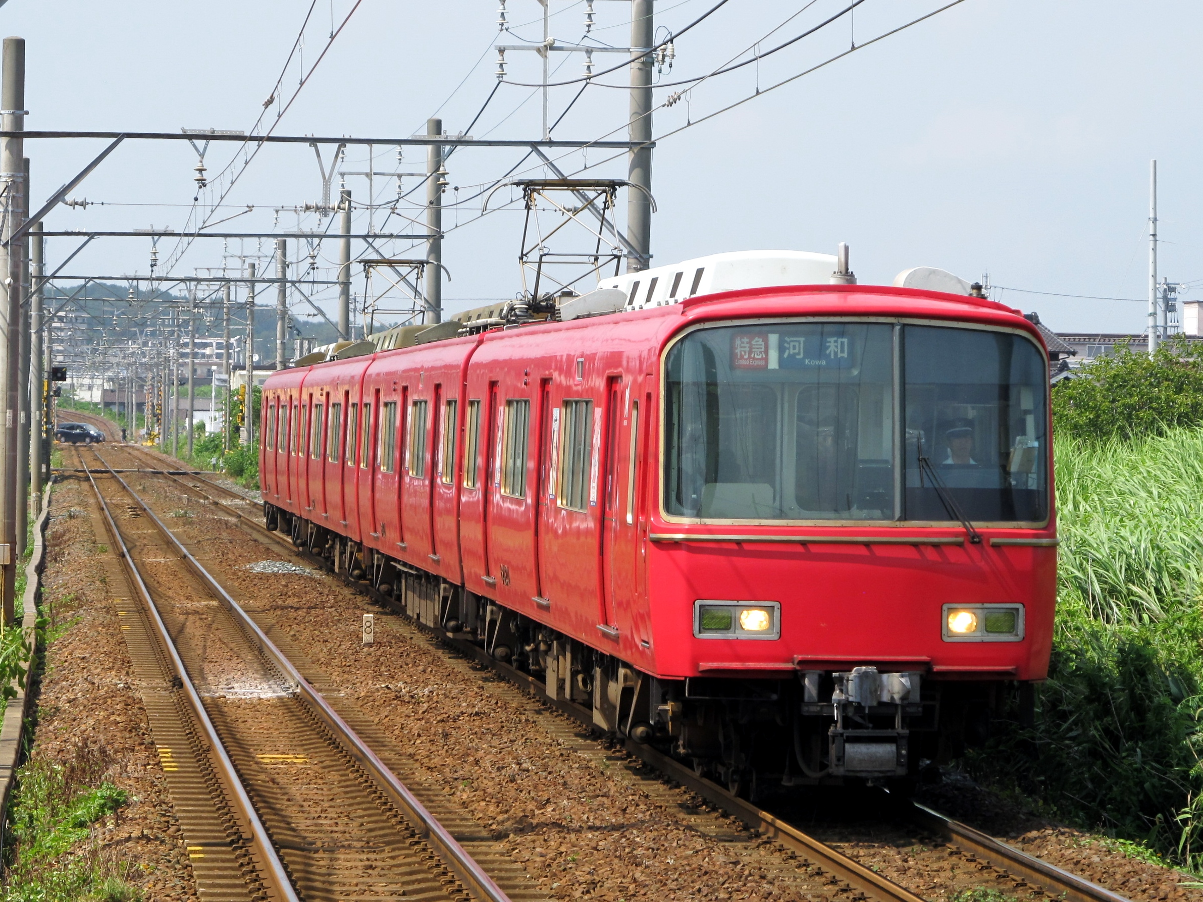 Meitetsu 6500 series. Limited Express bound for Meitetsu Kōwa.